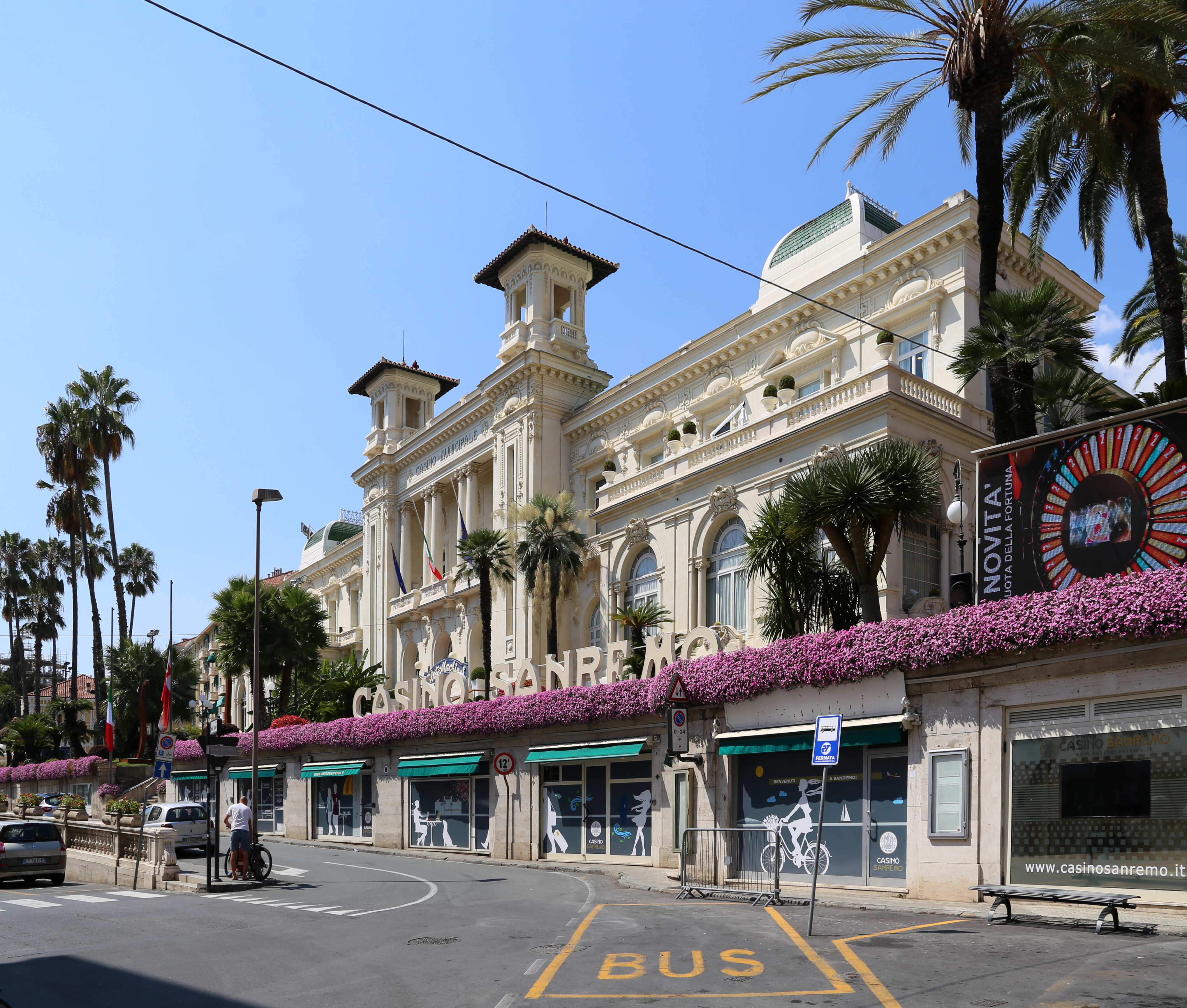 Sanremo